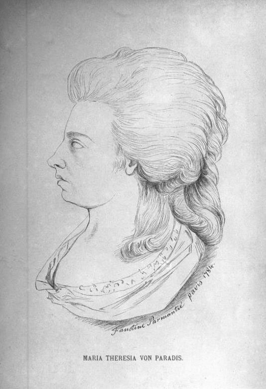 Portrait drawing: Austrian pianist, singer and composer Maria Theresia Paradis